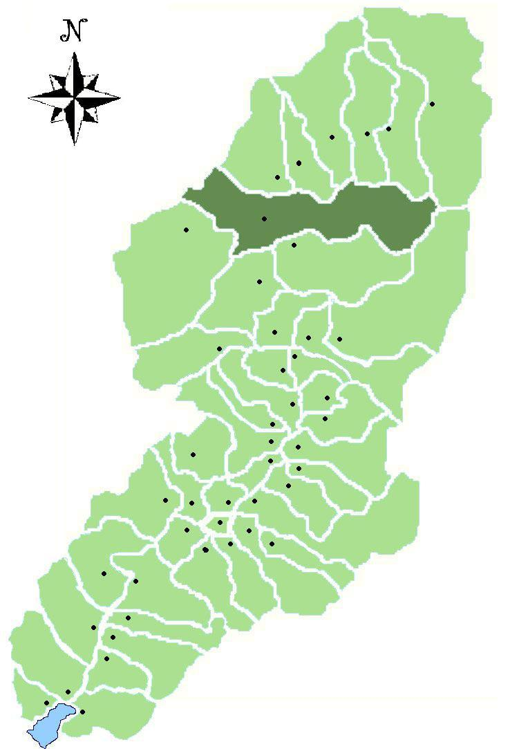 Map of the Comune di Edolo, Valle Camonica